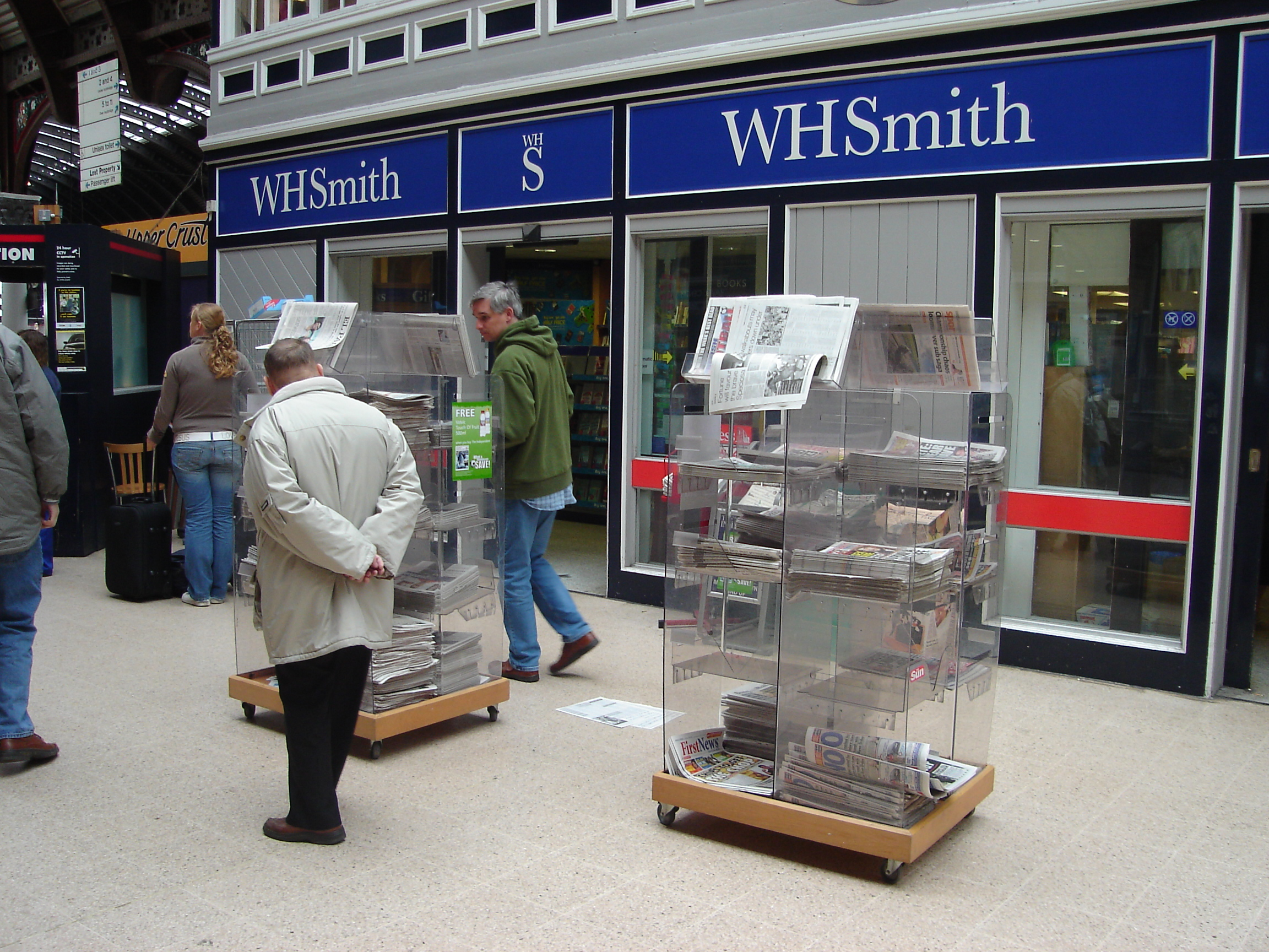 Shot of the outside of a WH Smith shop in York railway station, for enwiki-p.